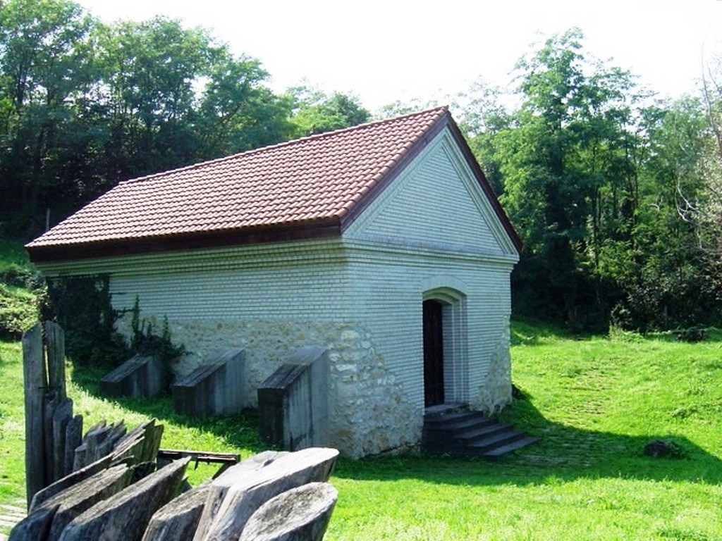 Temple of Mithras (Mithraeum) from the 3rd century near Fertőrákos (Hunagry)